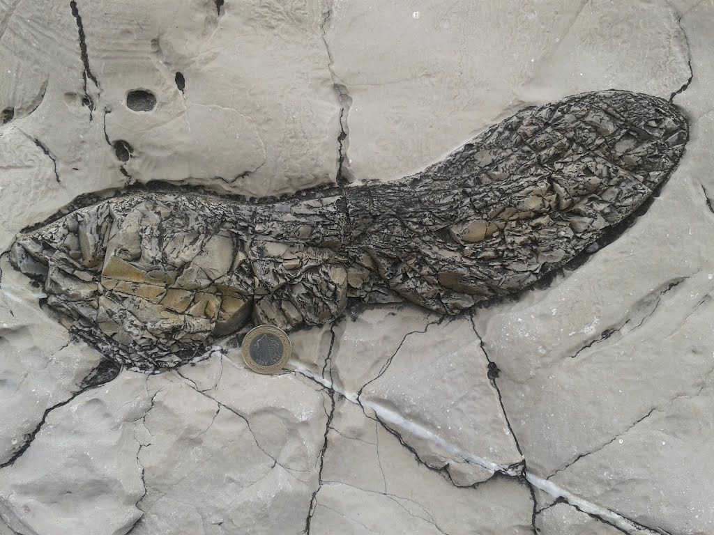 Akçakoca Chert nodules within soft limestone on the shore